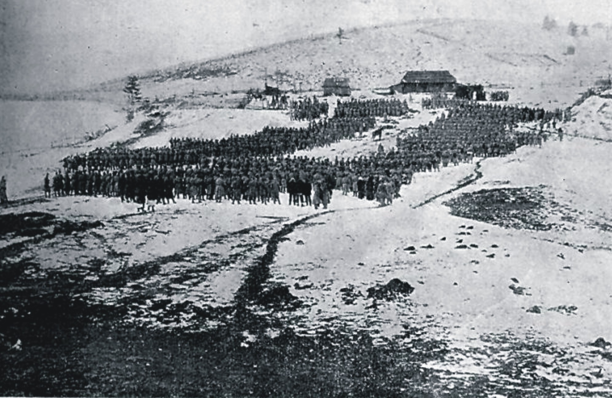 Holy mass in Rafajlova in 1915